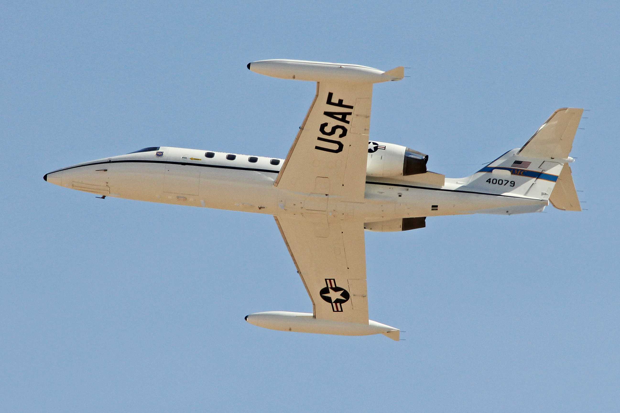 c/n 35A-525. Full US military serial 84-0079. Operated by the 457th Airlift Sqn, part of the 375th Air Mobility Wing based at Andrews AFB in Maryland. Seen departing Nellis AFB, NV, USA. 1st March 2016.